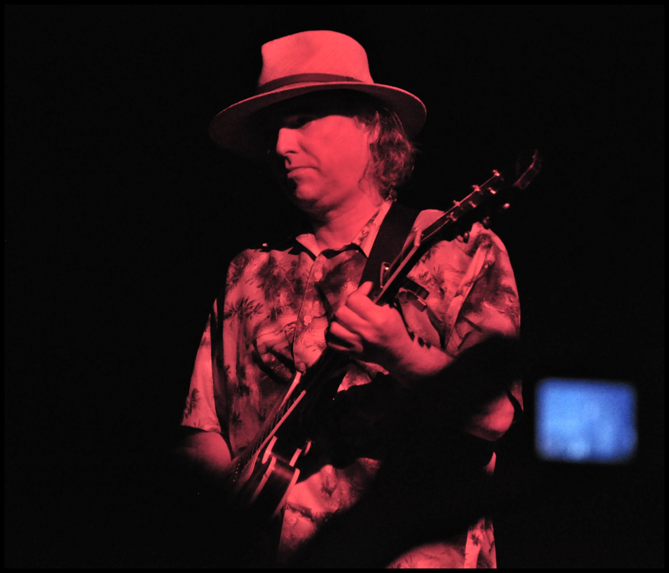 Andrew Innes performing with Primal Scream in 2011